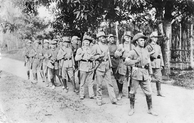 AWM Caption: A platoon of German Reservists in German New Guinea, after the outbreak of war and shortly before the arrival of the Australian Naval and Military Expeditionary Force (AN&MEF).